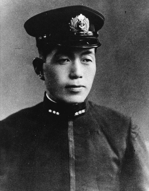 Lt. Kobayashi was Hiryu bomber unit commander during the Battle of Midway and was killed in action leading the dive bombing attack on USS Yorktown (CV-5) on 4 June 1942. Collection of Captain Roger Pineau, USNR, 1975. He had obtained the photograph from Lt. Kobayashi's father. U.S. Naval History and Heritage Command Photograph.